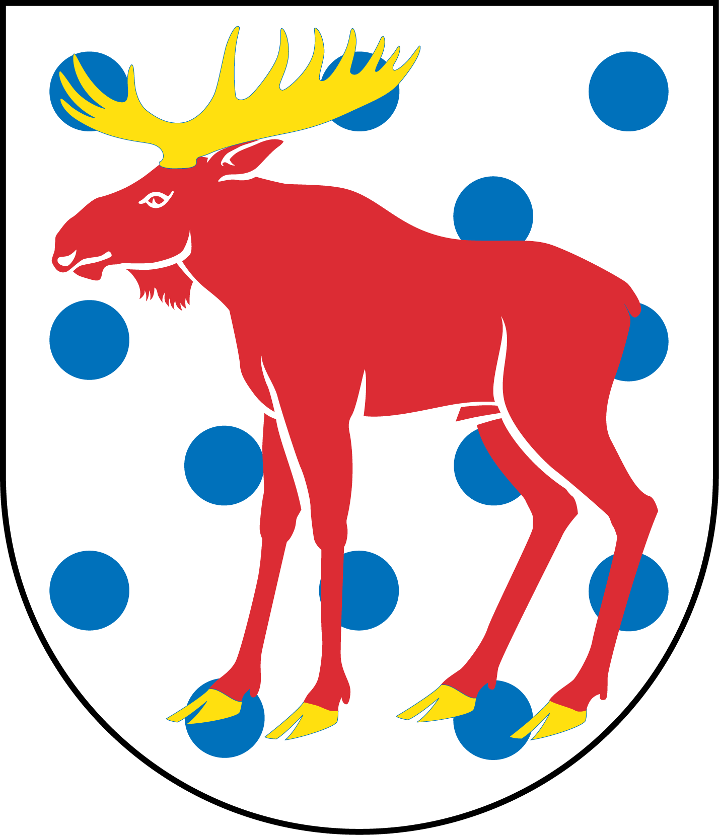 Coat of arms of the province of Gästrikland, Sweden. Painted by Vladimir A. Sagerlund when he was the heraldic artist at the National Archives of Sweden (Riksarkivet). This representation of a coat of arms is potentially different from the one used by the armiger (municipality or organisation) in question. = ⇑“Sable, a lionrampant or” This coat of arms was drawn based on its blazon which – being a written description – is free from copyright. Any illustration conforming with the blazon of the arms is considered to be heraldically correct. Thus several different artistic interpretations of the same coat of arms can exist. The design officially used by the armiger is likely protected by copyright, in which case it cannot be used here.Individual representations of a coat of arms, drawn from a blazon, may have a copyright belonging to the artist, but are not necessarily derivative works. Further information: Commons:Coats of arms and Template:Coa blazon